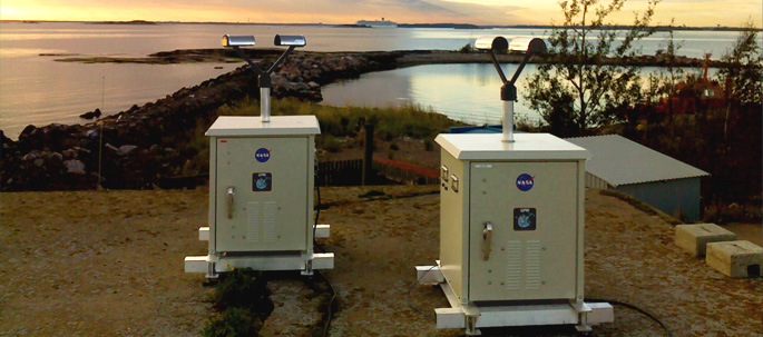 Two optical disdrometers at right angle to measure the type end form of the hydrometeors.